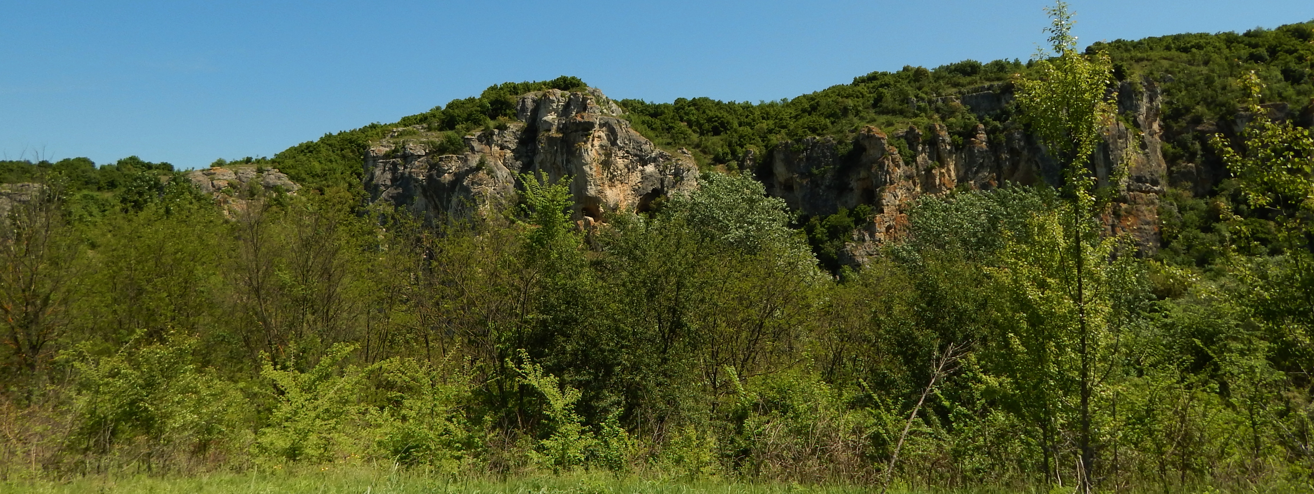 Cherni Lom River in Rusenski Lom Nature Park in Bulgaria